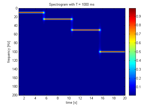 This picture is one of the four spectrograms I have created of the following signal: sampled at 400 Hz. I have created this picture and all the other three spectrograms with the following Matlab code, that is based on my stft script that you can find at User:Alejo2083/Stft script: clear all; %sampling frequency fc=400; %duration of the signal T=20; %zero padding factor my_zero=10; %generate the signal t=linspace(0,T,fc*T); x=zeros(1,length(t)); %thresholds th1=0.25*T*fc; th2=0.5*T*fc; th3=0.75*T*fc; th4=T*fc; x(1:th1)=cos(2*pi*10*t(1:th1)); x((th1+1):th2)=cos(2*pi*25*t((th1+1):th2)); x((th2+1):th3)=cos(2*pi*50*t((th2+1):th3)); x((th3+1):th4)=cos(2*pi*100*t((th3+1):th4)); %calculate and show the spectrograms [spectrogram, axisf, axist]=stft(x,10,1,fc,'blackman',my_zero); spectrogram=spectrogram/max(spectrogram(:)); figure,imagesc(axist,axisf,spectrogram), title('Spectrogram with T = 25 ms'), ylabel('frequency [Hz]'), xlabel('time [s]'), colorbar; [spectrogram, axisf, axist]=stft(x,50,1,fc,'blackman',my_zero); spectrogram=spectrogram/max(spectrogram(:)); figure,imagesc(axist,axisf,spectrogram), title('Spectrogram with T = 125 ms'), ylabel('frequency [Hz]'), xlabel('time [s]'), colorbar; [spectrogram, axisf, axist]=stft(x,150,1,fc,'blackman',my_zero); spectrogram=spectrogram/max(spectrogram(:)); figure,imagesc(axist,axisf,spectrogram), title('Spectrogram with T = 375 ms'), ylabel('frequency [Hz]'), xlabel('time [s]'), colorbar; [spectrogram, axisf, axist]=stft(x,400,1,fc,'blackman',my_zero); spectrogram=spectrogram/max(spectrogram(:)); figure,imagesc(axist,axisf,spectrogram), title('Spectrogram with T = 1000 ms'), ylabel('frequency [Hz]'), xlabel('time [s]'), colorbar; Feel free to improve the code, to speed it up or just make it clearer.